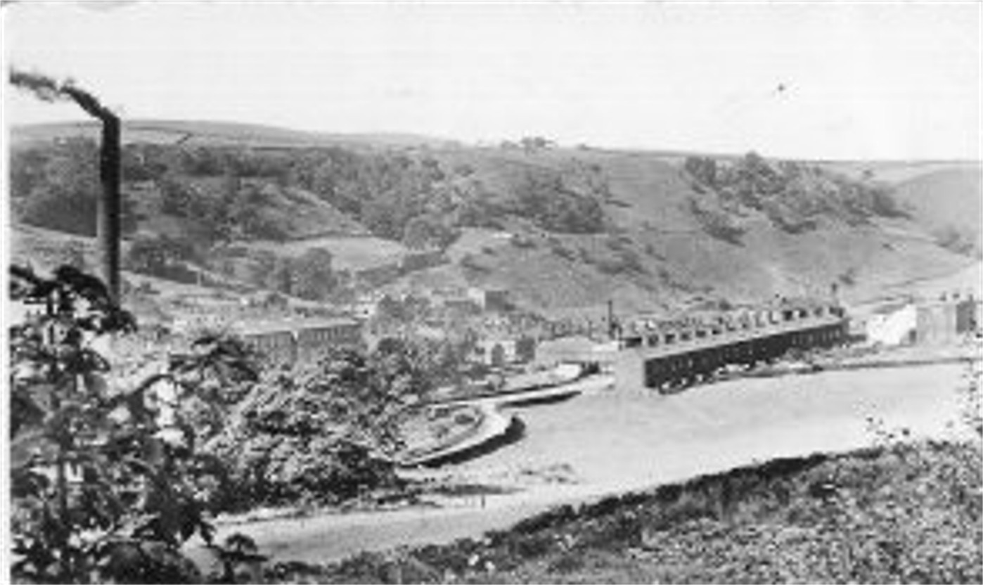 Loh93 01:56, 26 November 2006 (UTC)